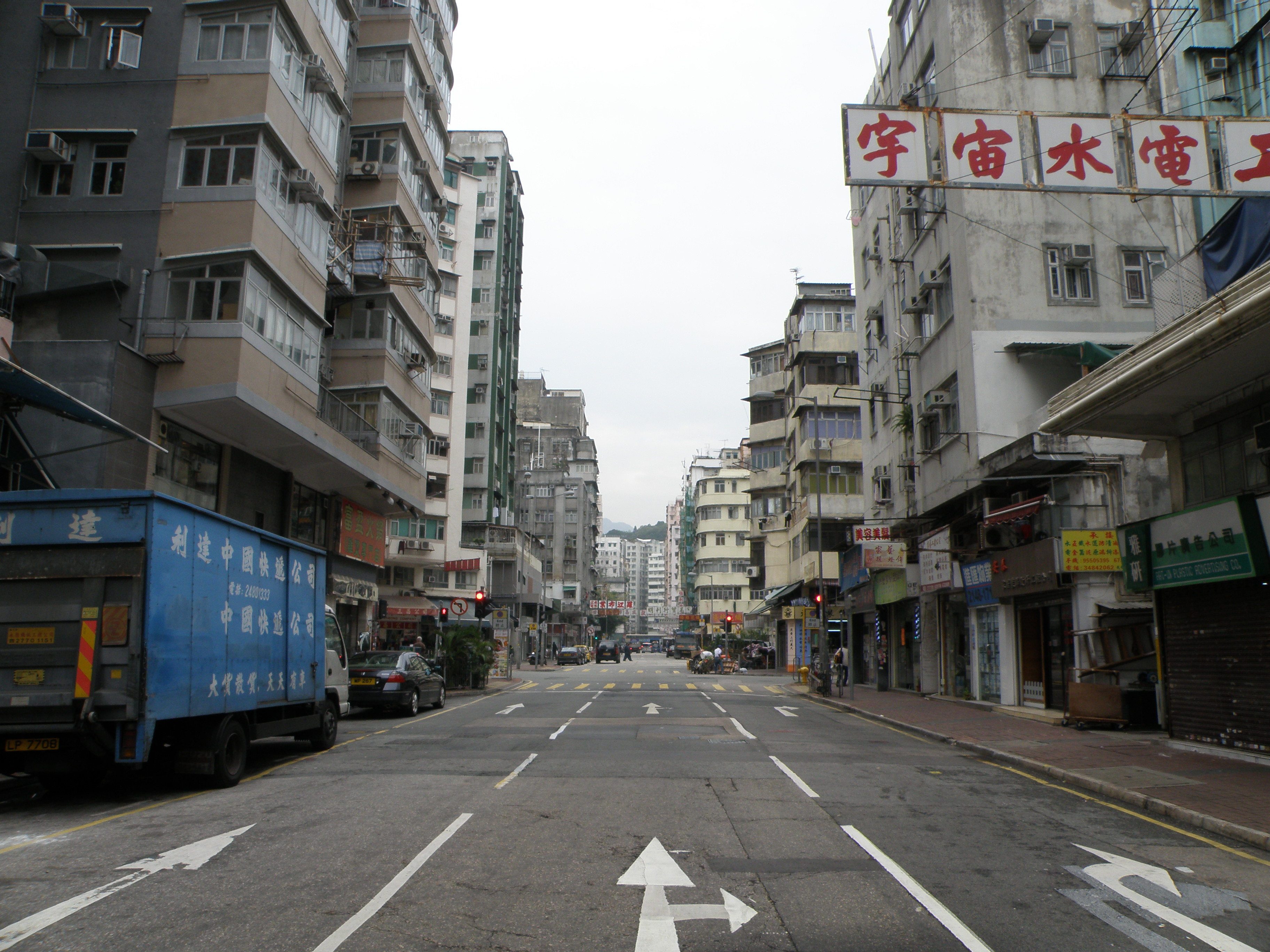 Maple Street in Sham Shui Po, Hong Kong.